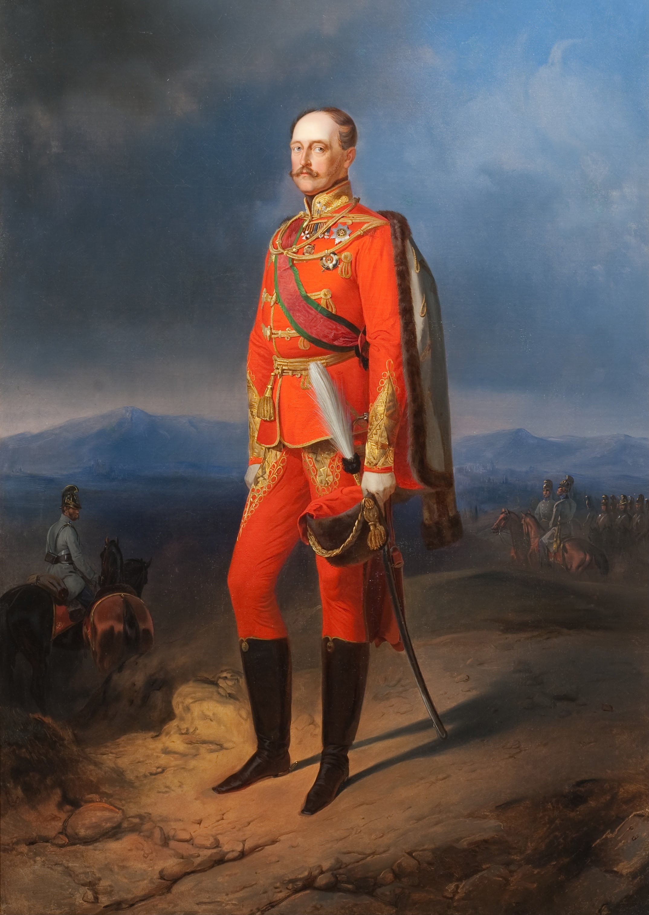 Portrait of Emperor Nicholas I in Austrian Uniform. Unknown artist. 1840s-1850s. Ministry of Culture of the Russian Federation, via Google Cultural Institute